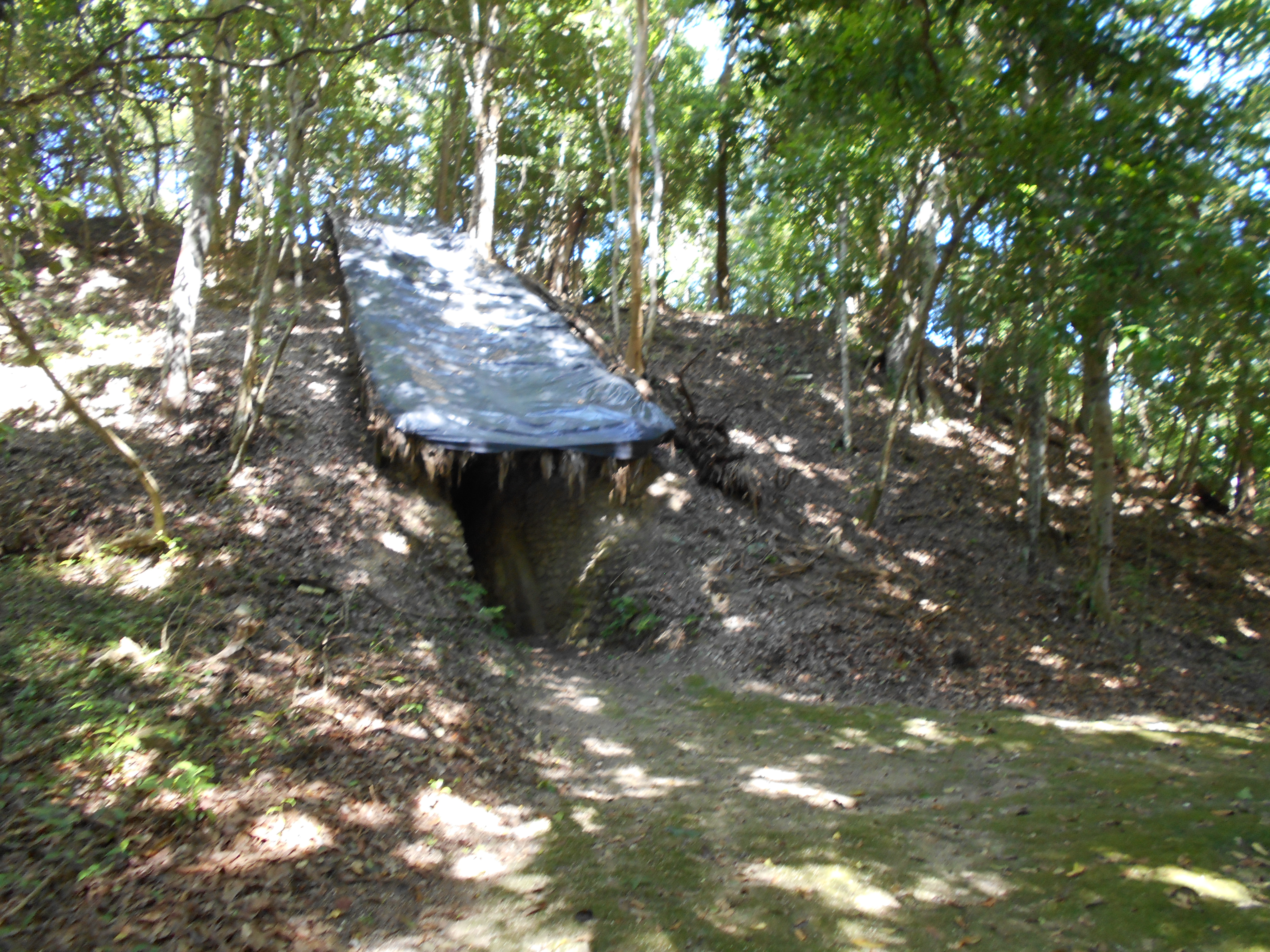 Classic period Maya ruins of Holtún in the Petén department of Guatemala.